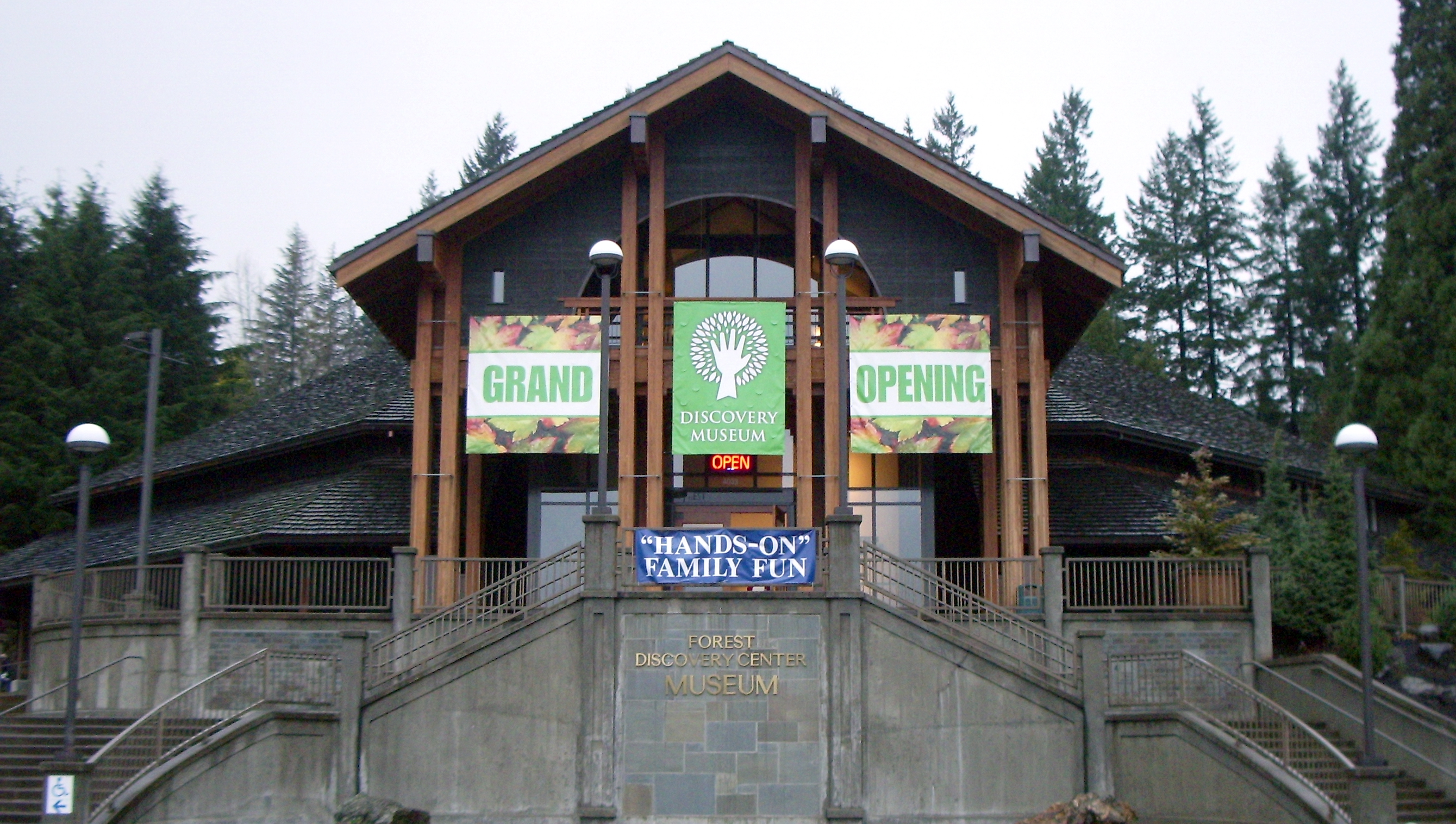 World Forestry Center Main building entrance